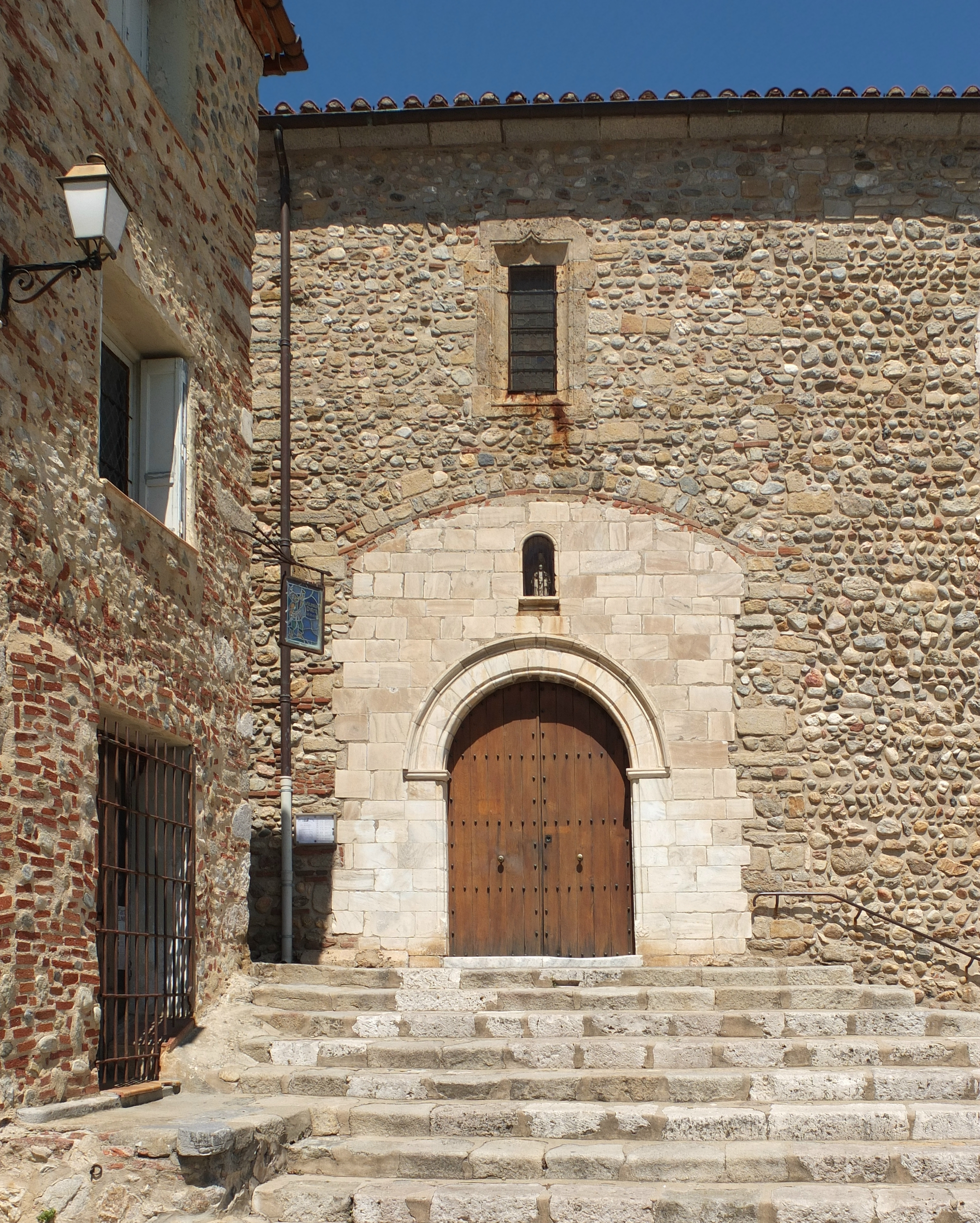 Elne, France: Cathédrale Sainte-Eulalie-et-Sainte-Julie, side portal (SE)